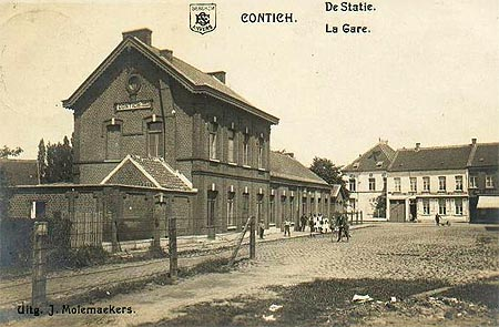 Old postcard from the station of Kontich (centre)